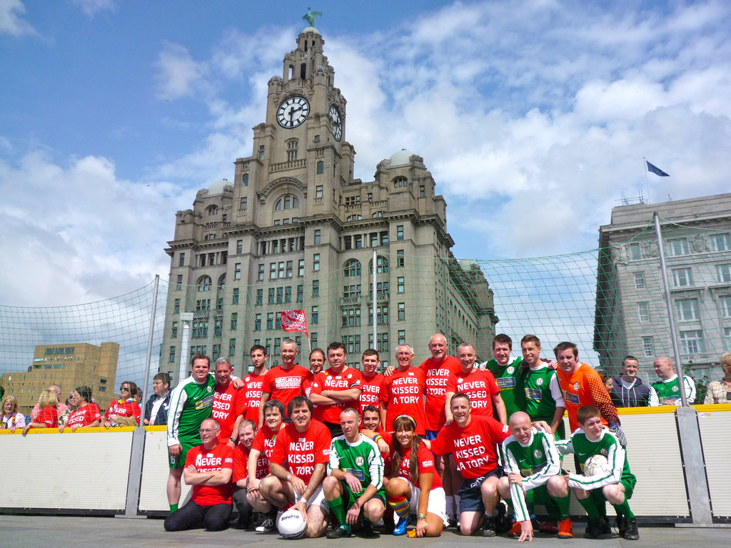 Mersey Marauders FC, Liverpool's LGBT football team, play Liverpool City Councillors for the Armistead Cup at Liverpool Pride Cage Football tournament 2011.